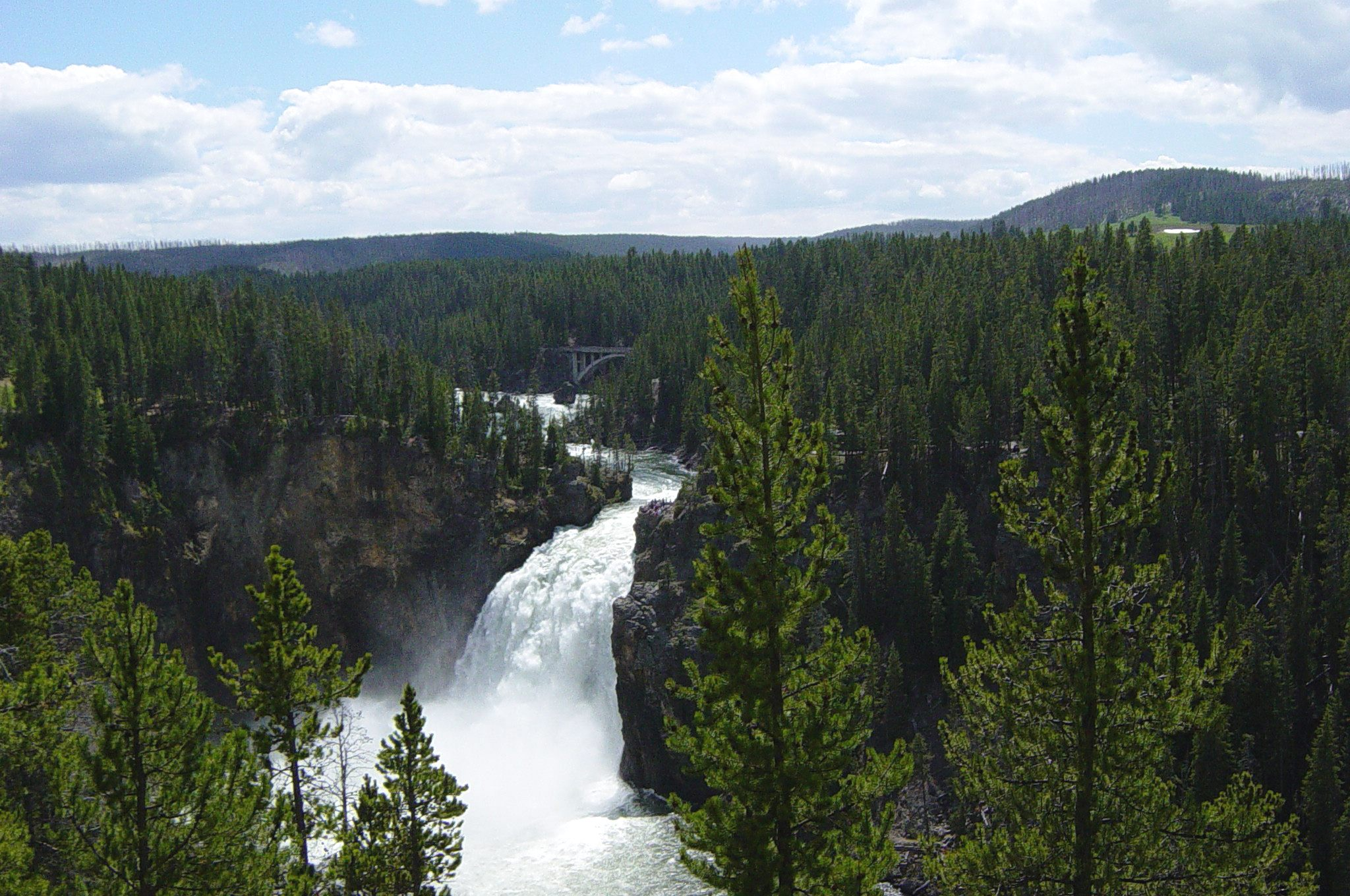 Photo taken in the Yellowstone area. Trees are Pinus contorta.